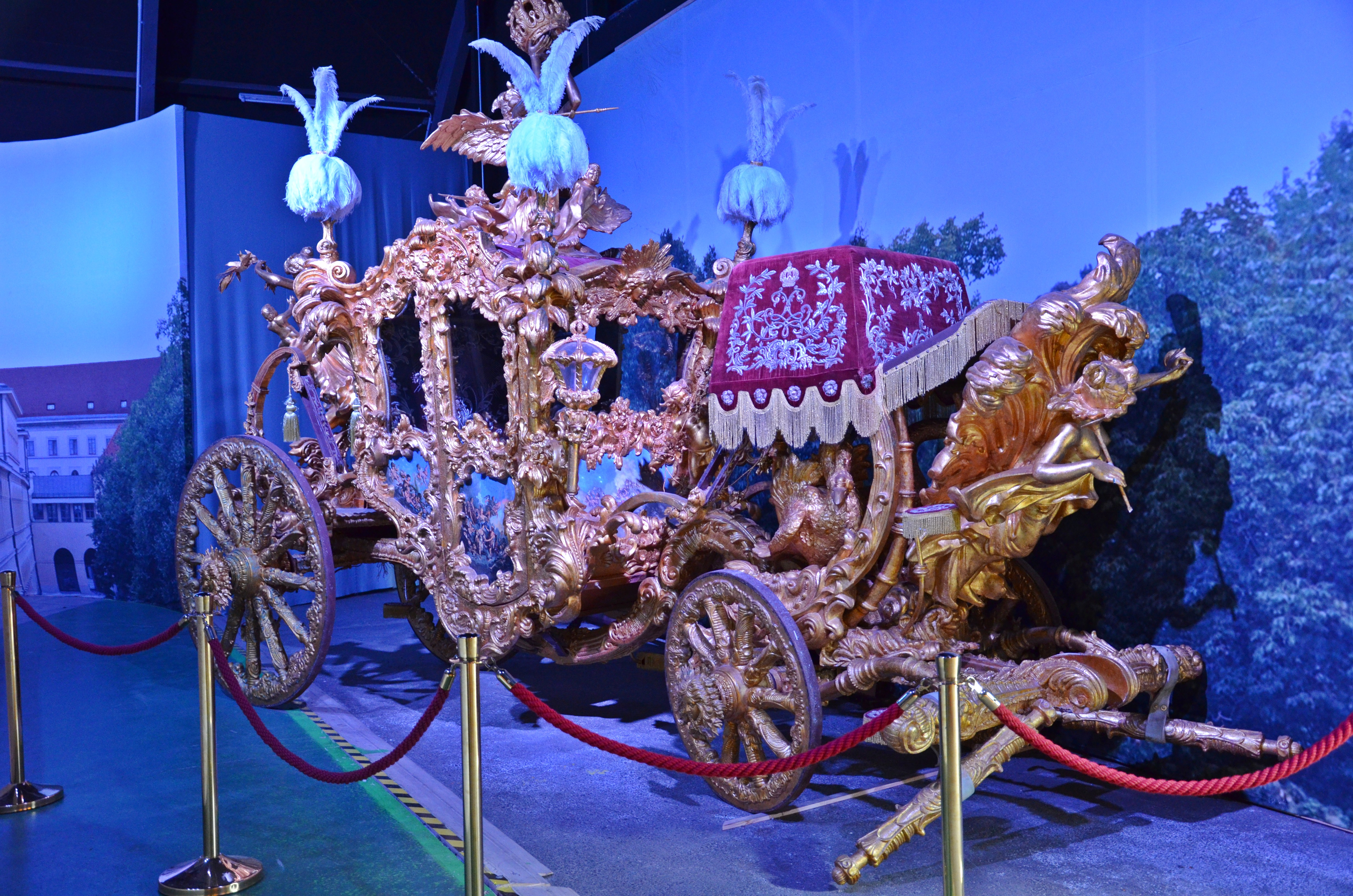 Ludwig II (2012) - charriot used in the film